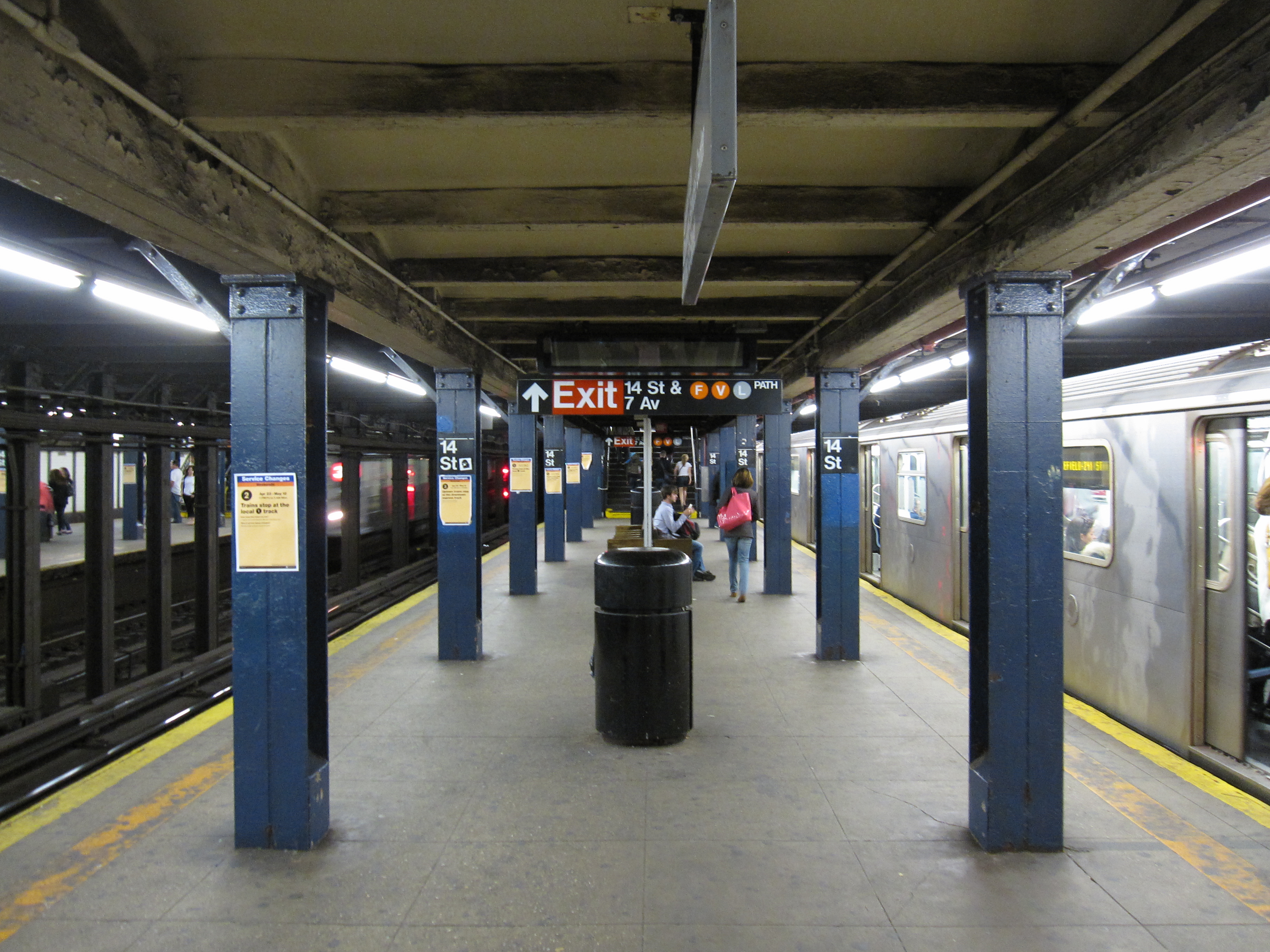 14th Street (IRT Broadway – Seventh Avenue Line)